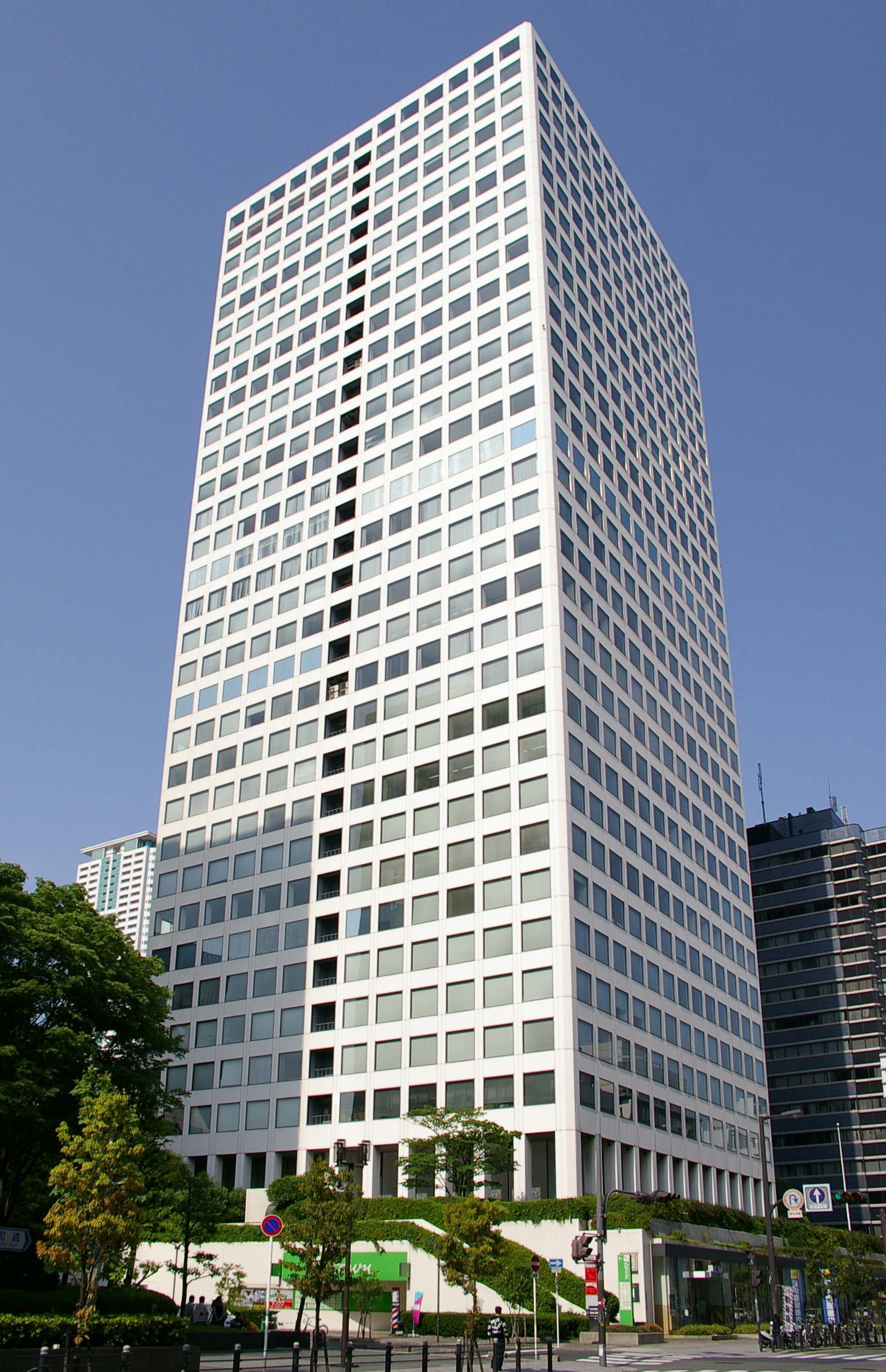 Photograph of Osaka Kokusai Building in Chuo-ku, Osaka, Osaka Prefecture, Japan.